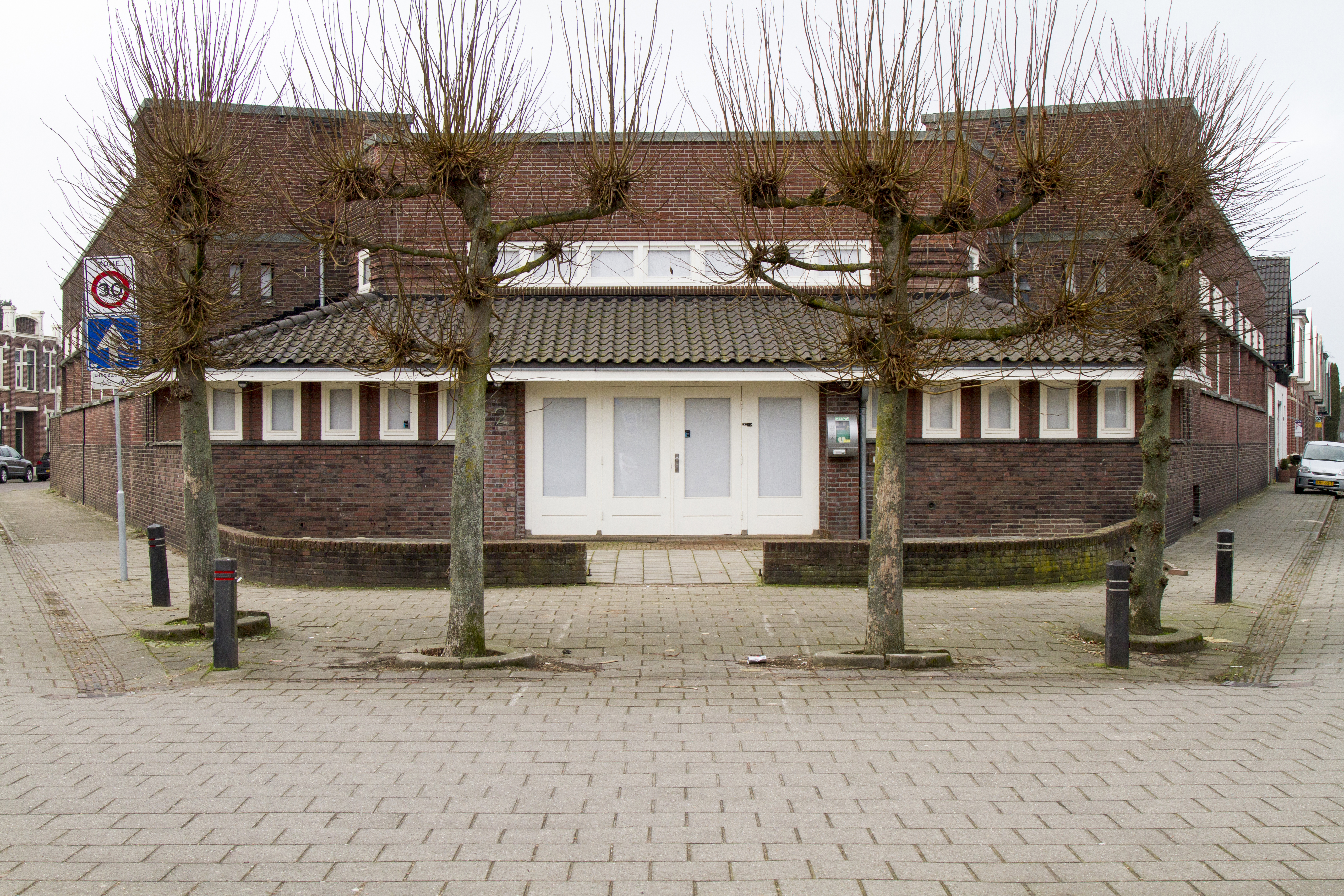 Gebouw ontworpen door architect AK Beudt. Geopend eind mei 1930. Is ontworpen als eerste openbare leeszaal/ bibliotheek in Hengelo.